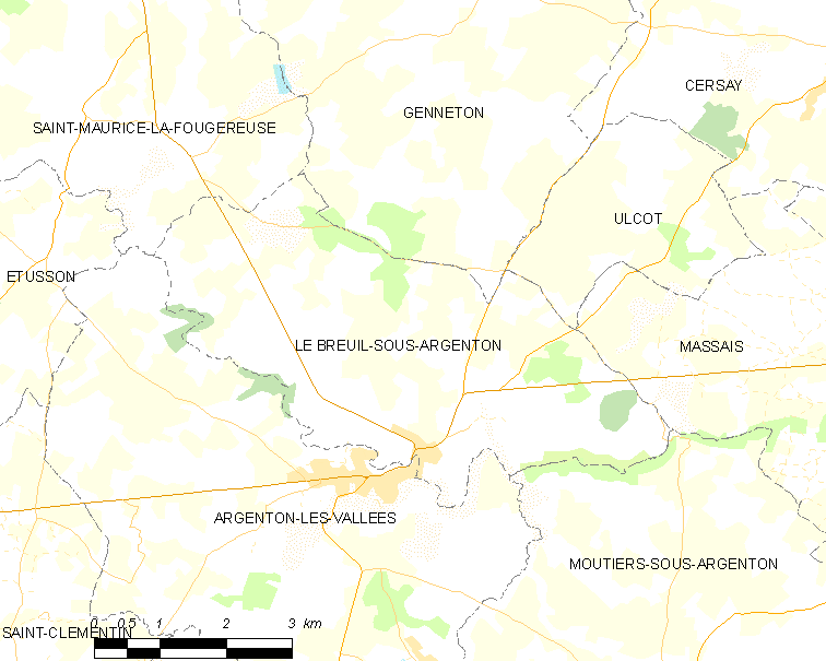 Map of French municipality Le Breuil-sous-Argenton